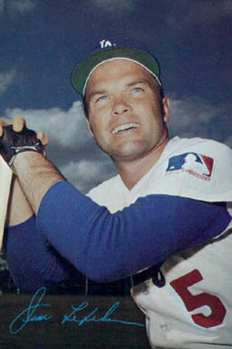 A baseball card of Jim Lefebvre from the 1971 Ticketron Los Angeles Dodgers set.